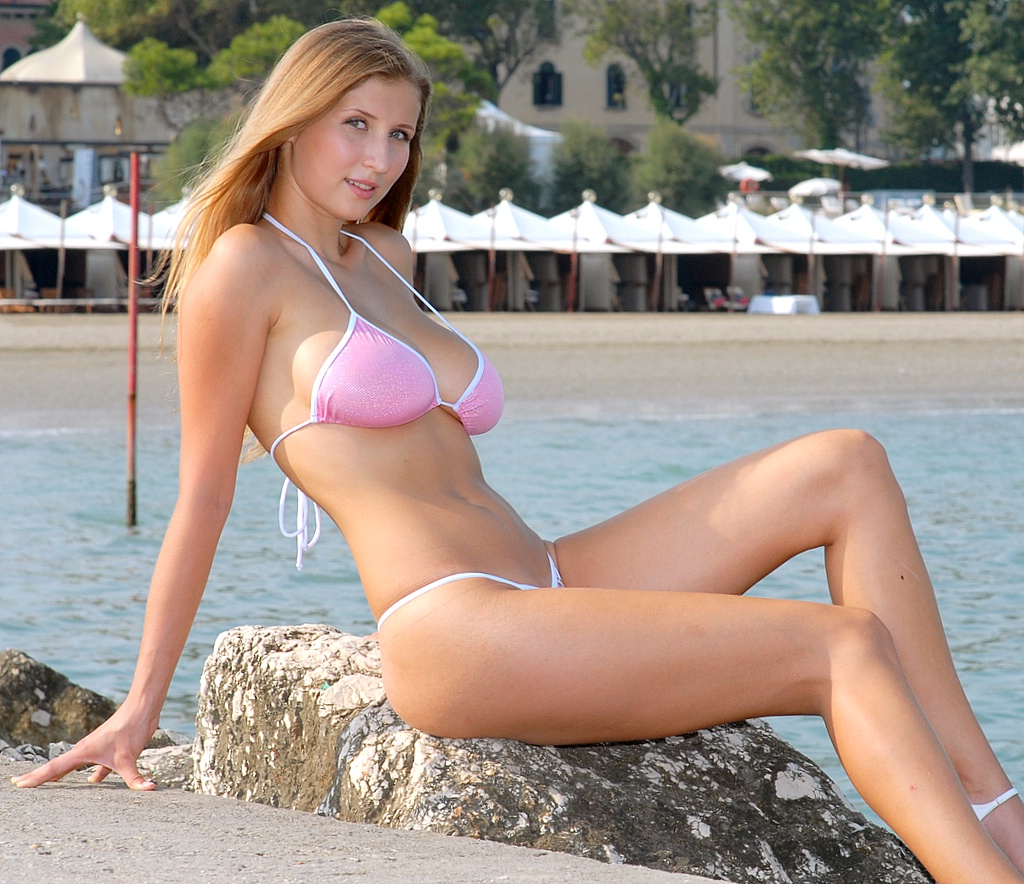 Claudia posing for a photo shoot by the poolside